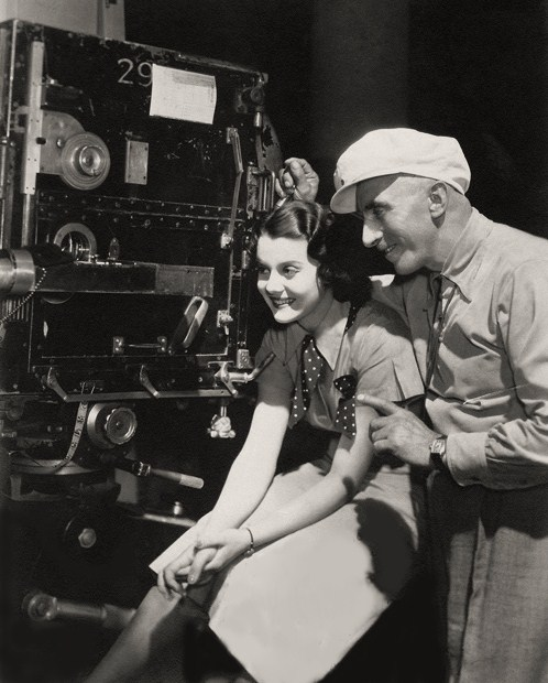 Olympe Bradna & Harry Fischbeck (cinematographer) on the set of The Last Train from Madrid - publicity still